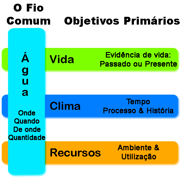 Portuguese translation and adapted version of the image that can be found at the site about the Mars Polar Lander Scientific Goals.